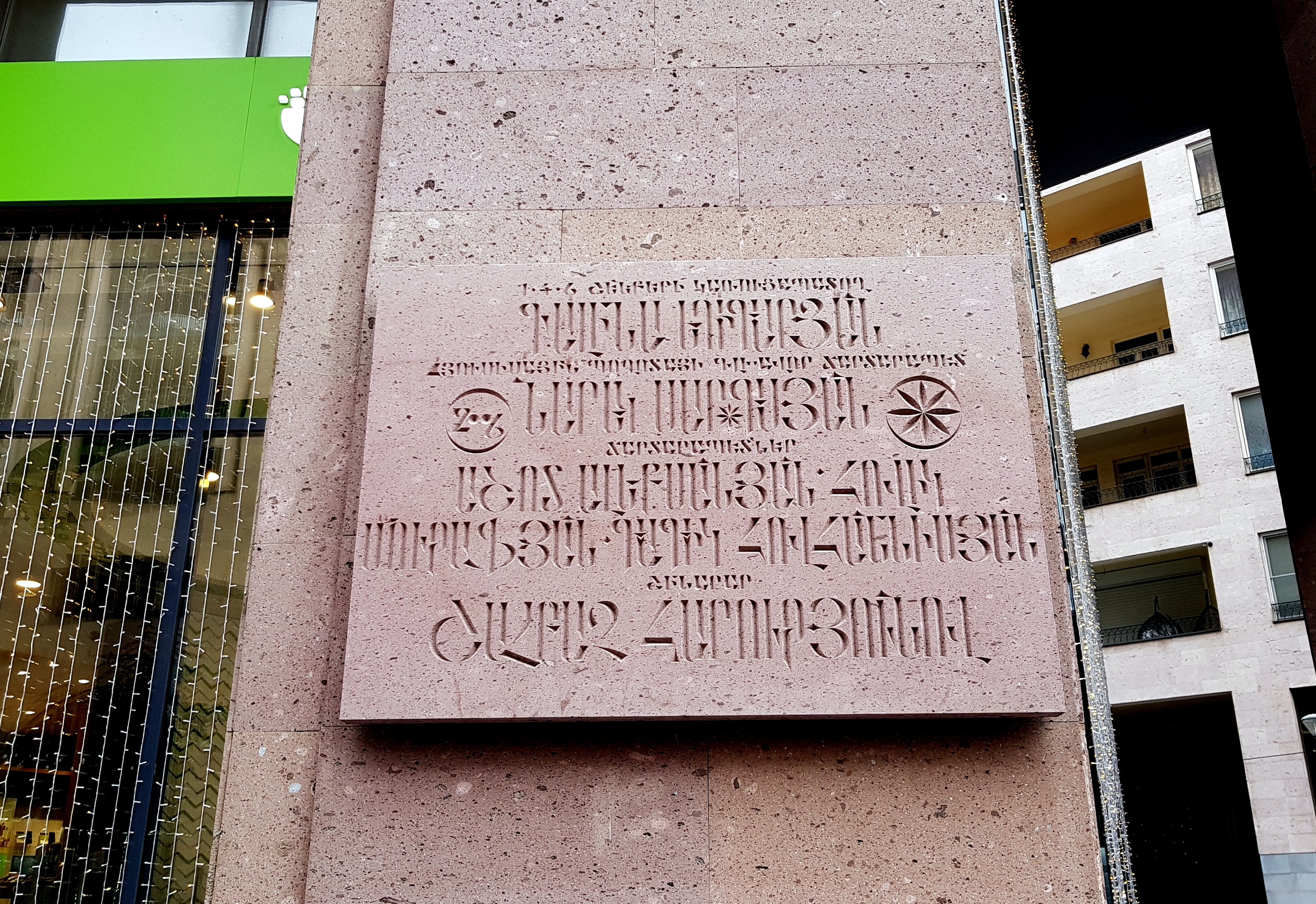 Plaque in Northern Avenue